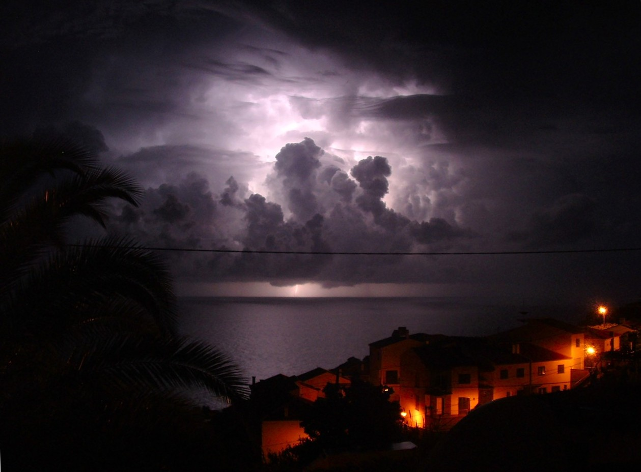 Thunderstorm, captured from Garajau (Madeira, Portugal)